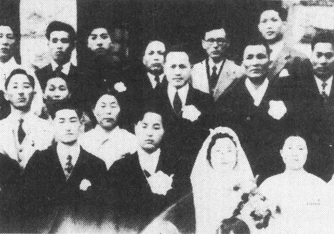 The wedding ceremony of Kim Young-sam and Son_Myung-soon, 1951